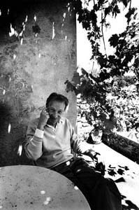 Philippe Jaccottet